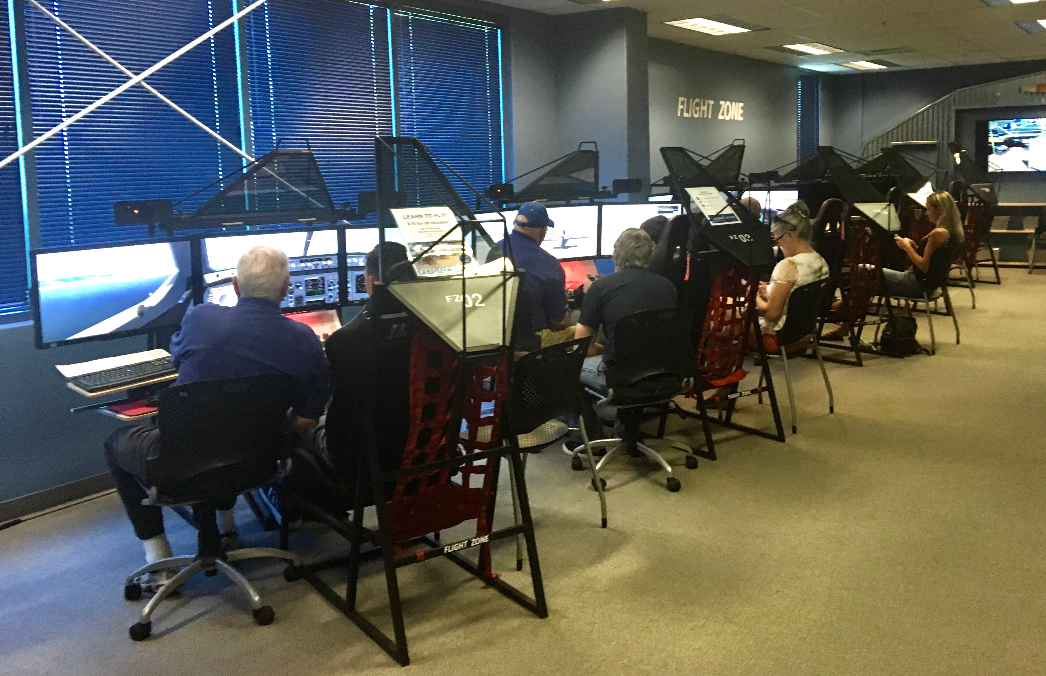 Students and instructors using the Flight Zone flight simulators at the Aerospace Museum of California. The Flight Zone houses six independent flight simulator stations, each running the X-Plane 11 Flight Simulator program. Each station is supplemented by a high end gaming computer with a graphics card that supports three 27″ monitors with 2560×1440 resolution per monitor. Many of the instructors are volunteers who are also retired pilots.